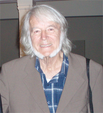 A photo of Serbian writer Mile Medić in Toronto.